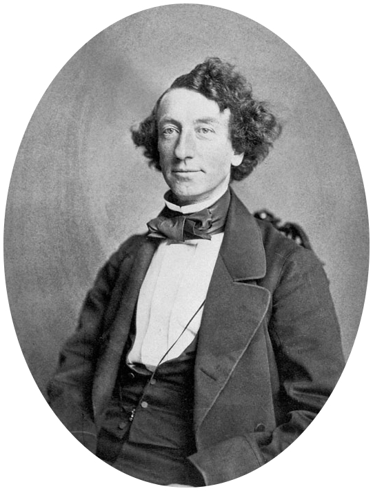 John A. Macdonald photographed on June 1, 1858.